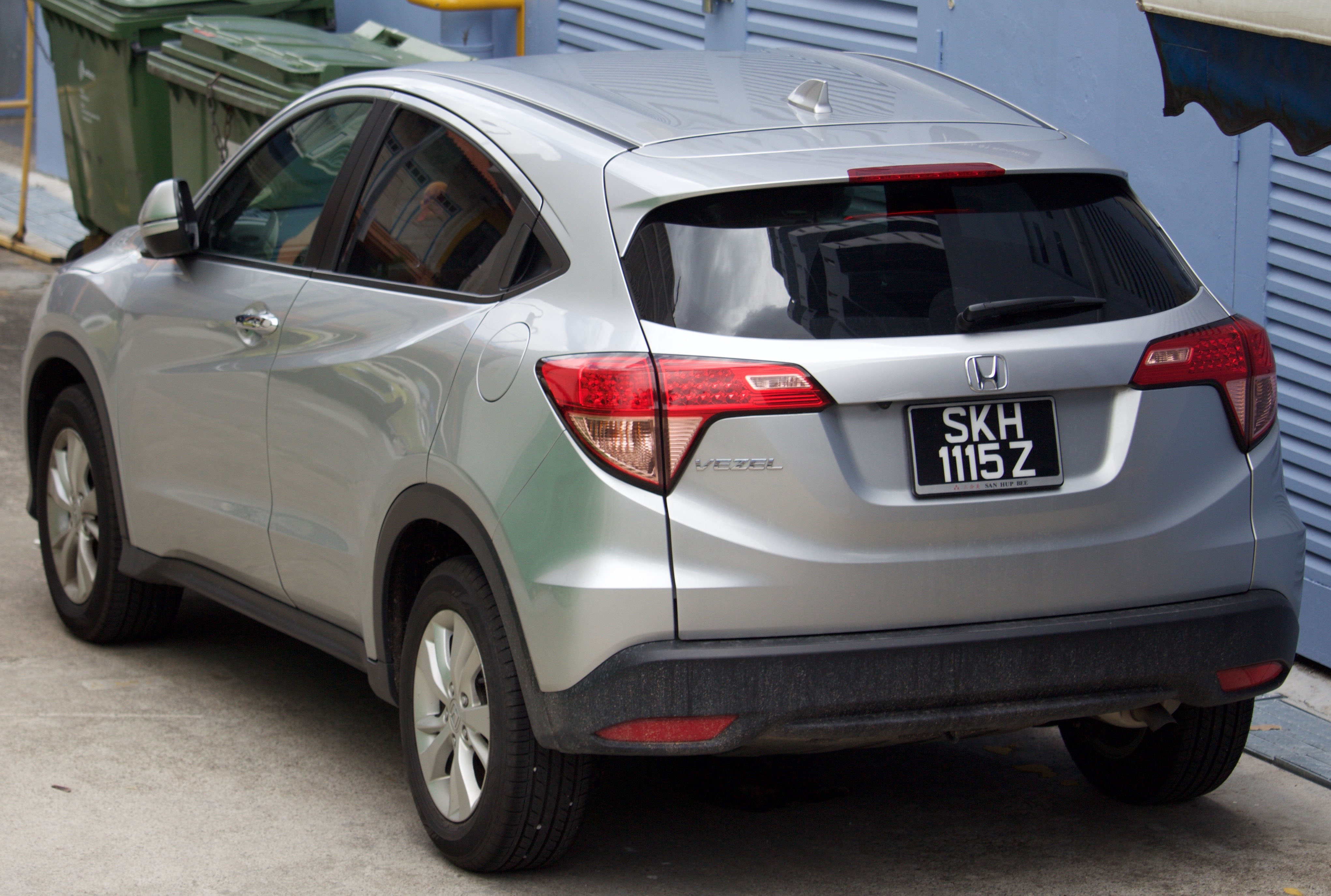 2015 Honda Vezel 1.5X 5-door wagon. Photographed in Singapore. Vehicle registration enquiry resultsJurisdictionSingaporeRegistrationSKH1115ZChassis codeRU11020354Engine codeL15B3520370Year of manufacture2015